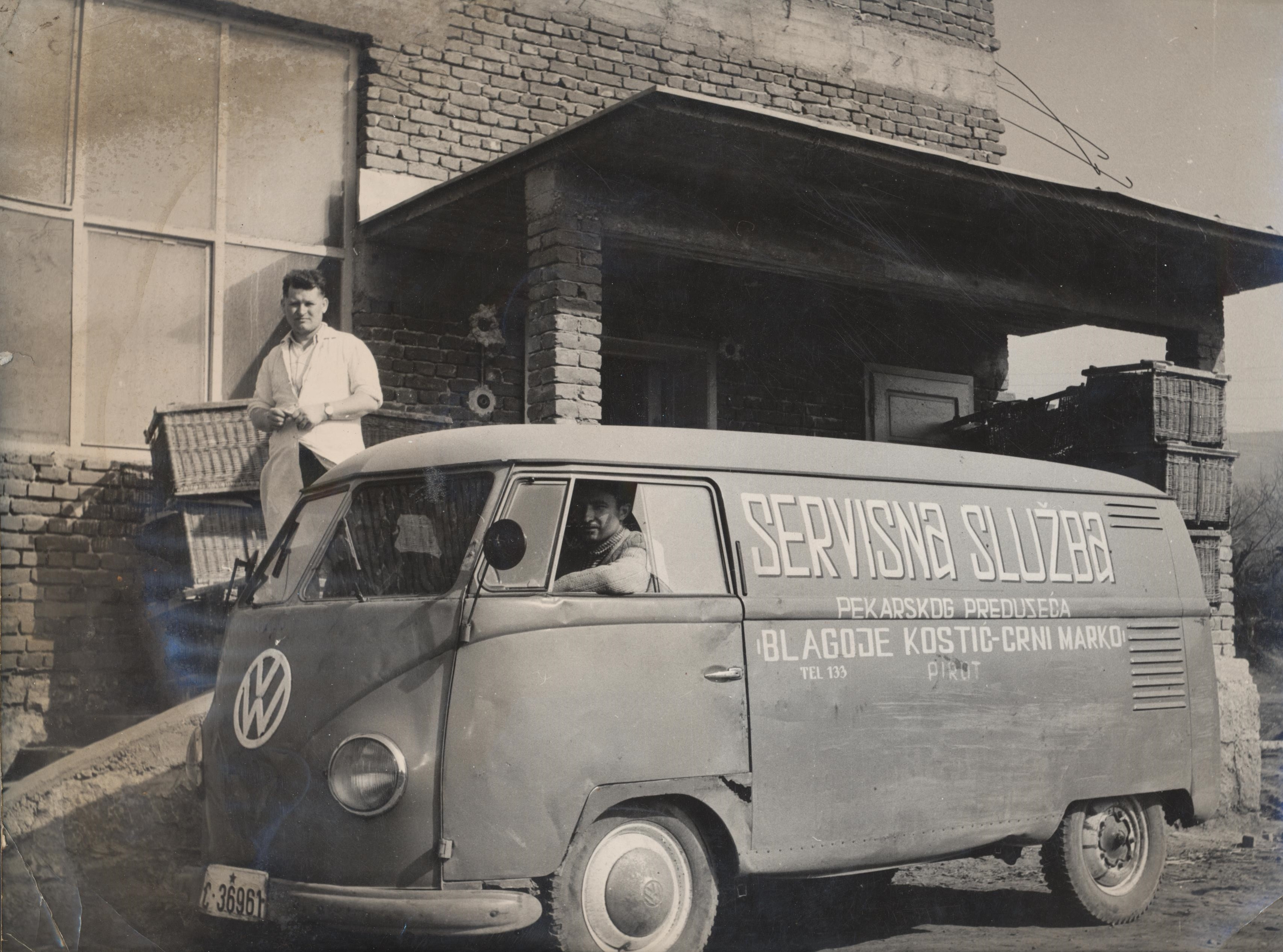 Vehicle company Blagoje Kostic Crni Marko in 1961 in Pirot